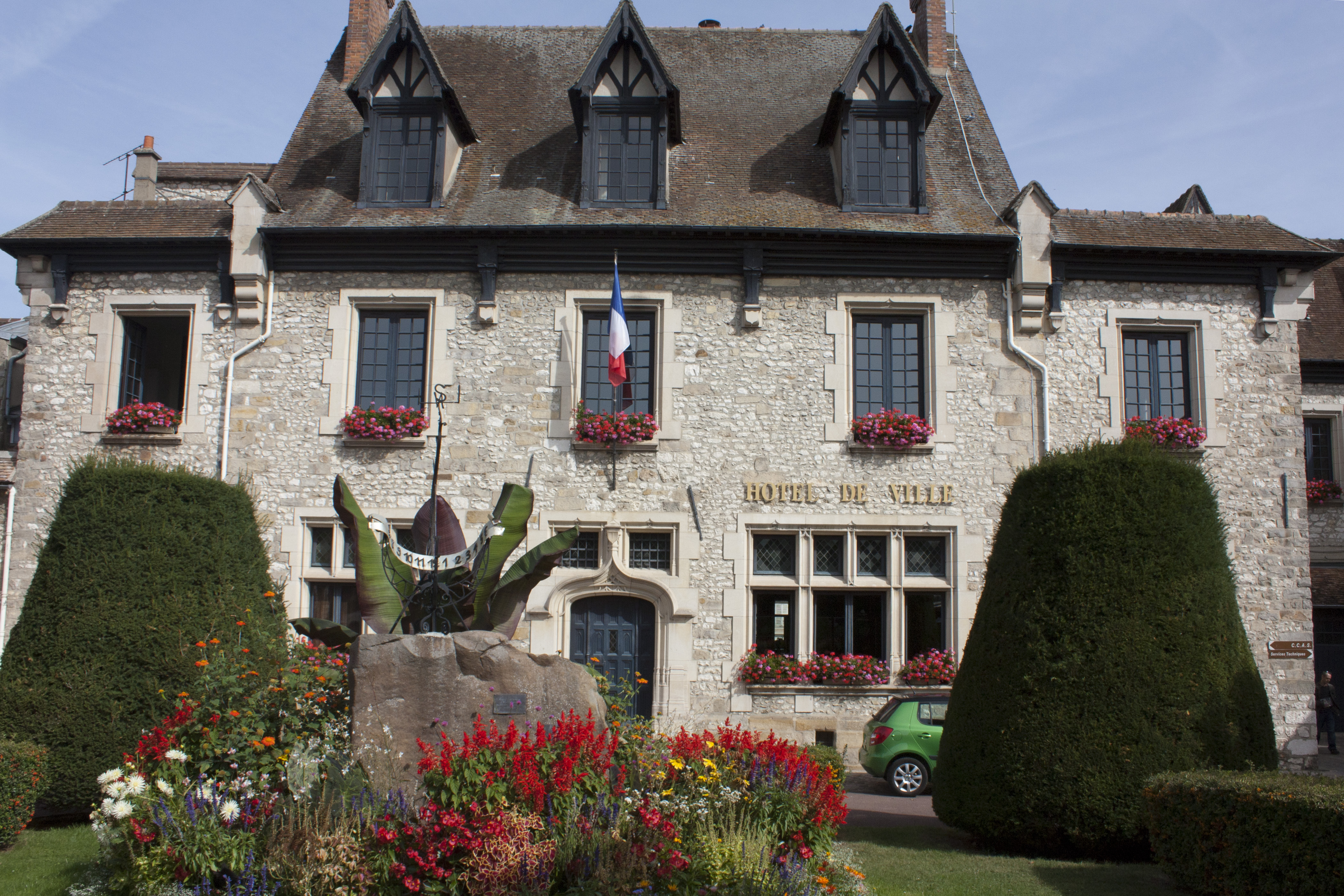 Old Clément's house, today City Hall